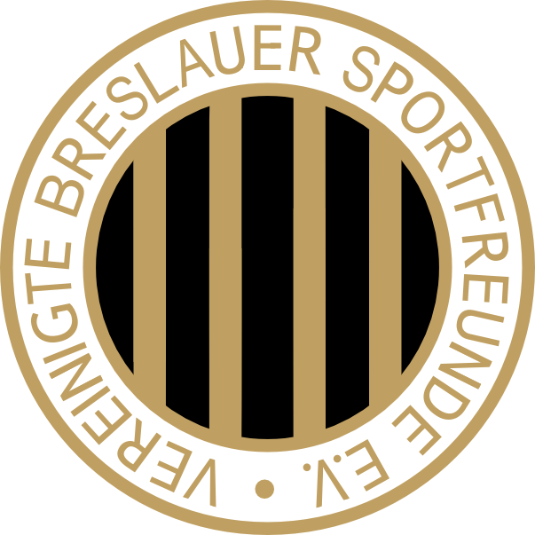 Logo of Vereinigte Breslauer Sportfreunde, German football team.